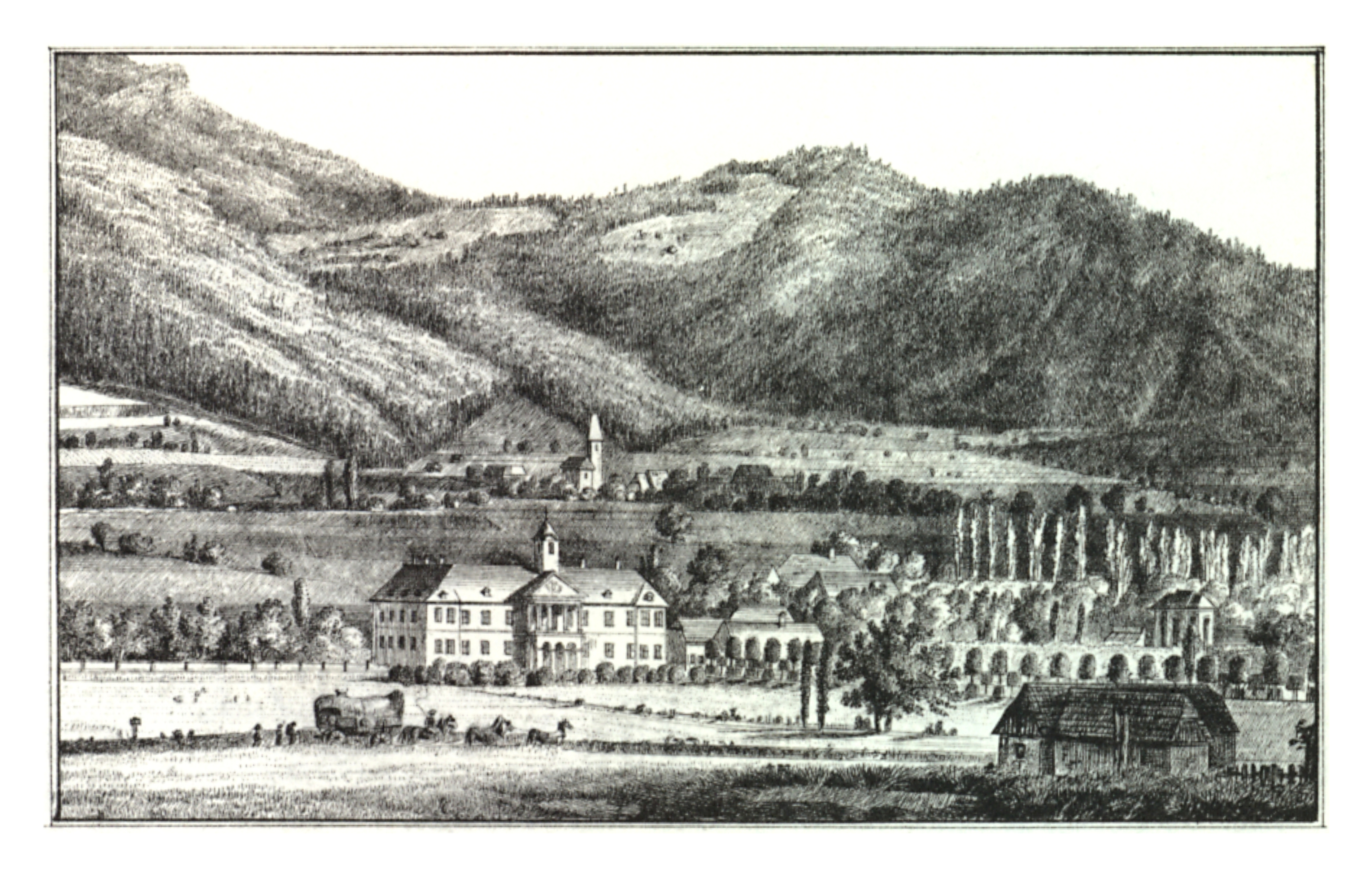 J. F. Kaiser - lithographirte Ansichten der Steyermärkischen Städte, Märkte und Schlösser Graz, 1825 Joseph Franz Kaiser (1786–1859) Alternative names J. F. KaiserDescriptionAustrian printer and editorDate of birth/death 11 March 1786 19 September 1859Location of birth/death Graz (Styria) GrazAuthority control : Q1499963 VIAF: 30629353 ISNI: 0000 0000 3083 0153 LCCN: n87141671 GND: 129880159 NLP: A24960305 WorldCat creator QS:P170,Q1499963 Scanprojekt Community Projektbudget 2012 This scan or this PDF-file was created within the GLAM-project Bookscanning, supported by Wikimedia Germany and Wikimedia Austria as a part of the community-project to capture books, documents and pictures which are not eligible to copyright or for which the copyright has expired. This document describes or depicts an object which is located in Austria today. Send requests for uncompressed scans to Hubertl. This work is in the public domain in its country of origin and other countries and areas where the copyright term is the author's life plus 100 years or less. You must also include a United States public domain tag to indicate why this work is in the public domain in the United States. This file has been identified as being free of known restrictions under copyright law, including all related and neighboring rights.